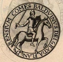 Baldwin VII of Flanders